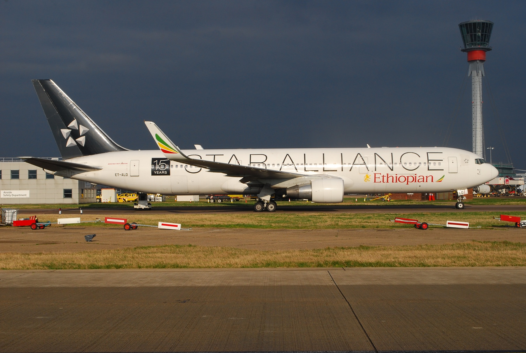 Ethiopian Airlines 767 in Star Alliance c/s. Complete with winglets